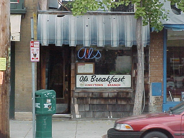 Al's Breakfast, in Minneapolis, Minnesota, USA. Uploaded by Richard Kaszeta (photographer)